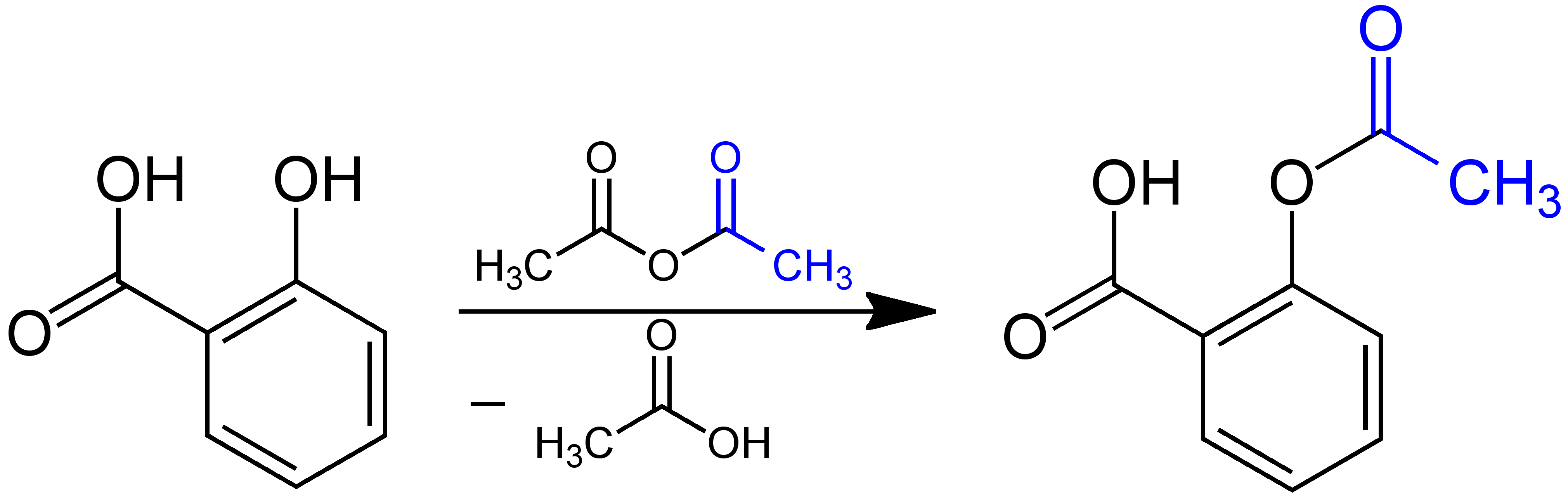 Aspirin_Synthesis